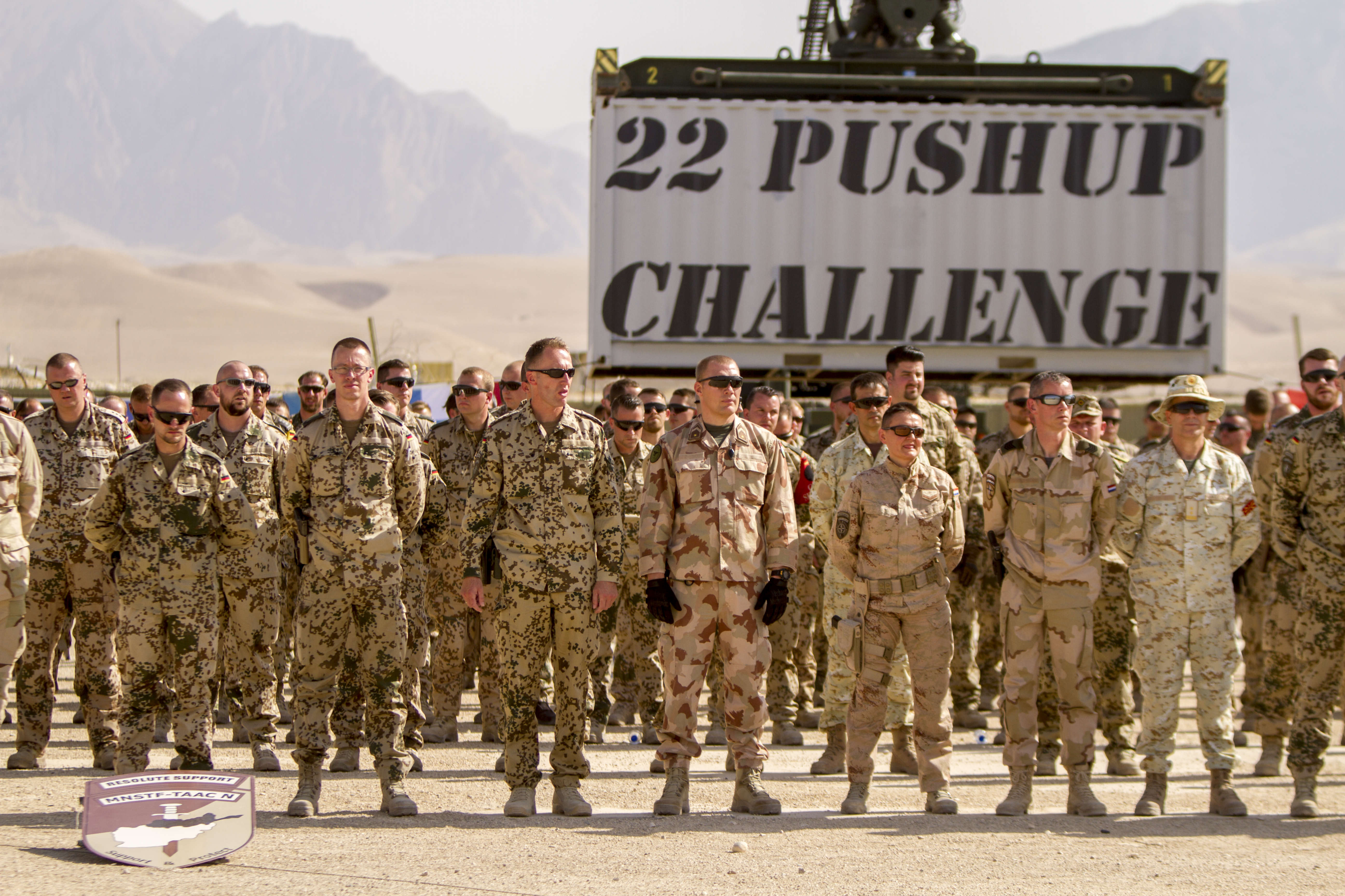 Multi-National 22 Pushup Challenge in Afghanistan